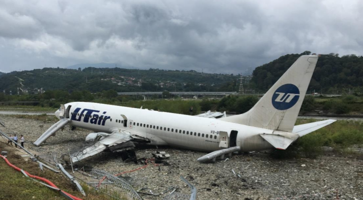 UTair Flight 579 wreckage